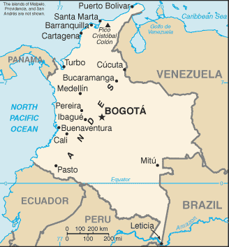 Map of Colombia